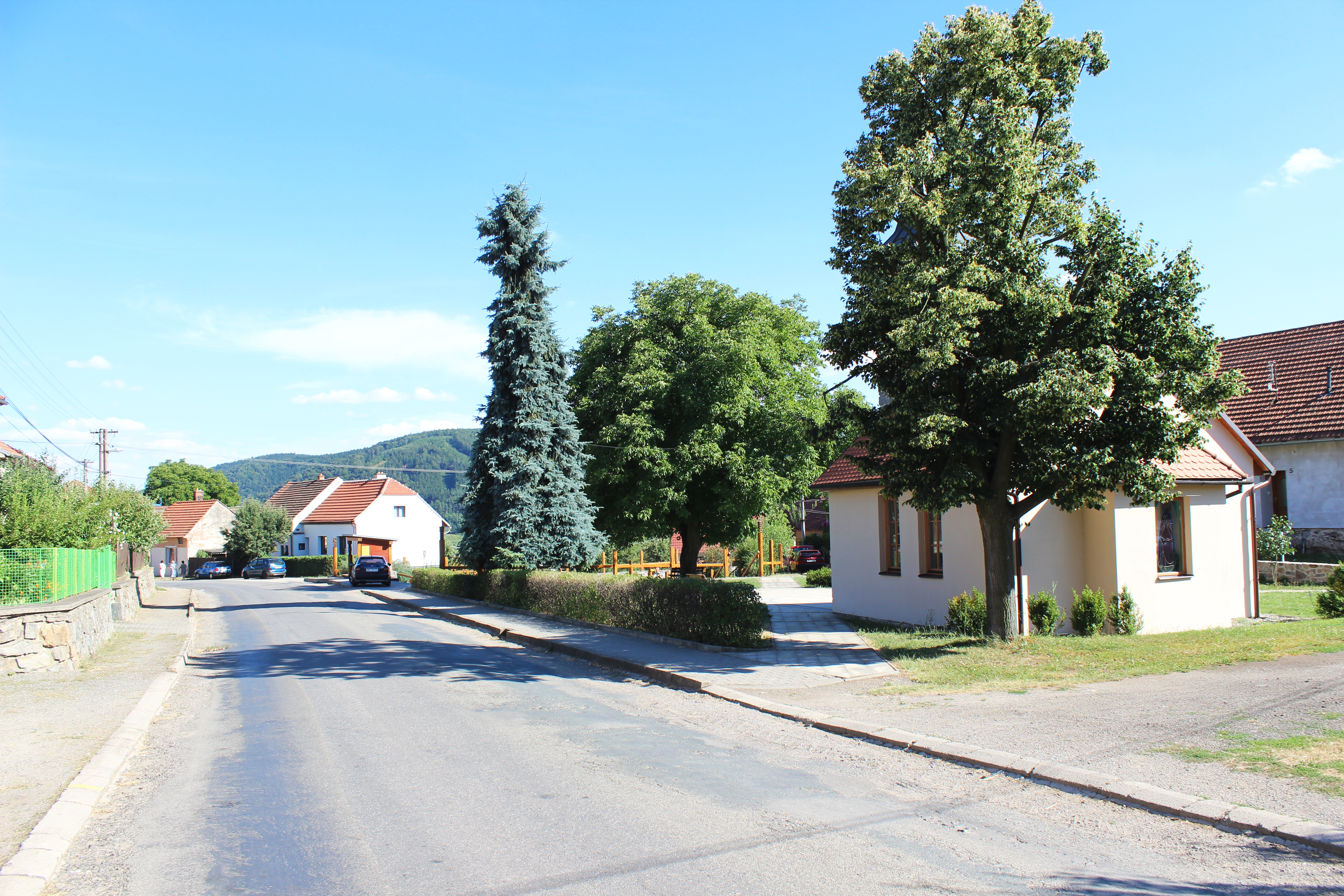 Horní Loučky, Brno-Country District, Czech Republic - Google Maps - Google Earth This photograph was taken with a DSLR from WMCZ's Camera grant.